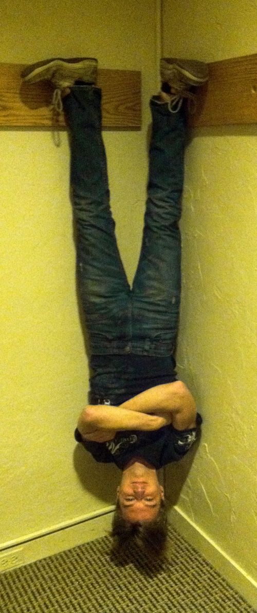 A student in Currier House (of Harvard College) provides an example of Batmanning.